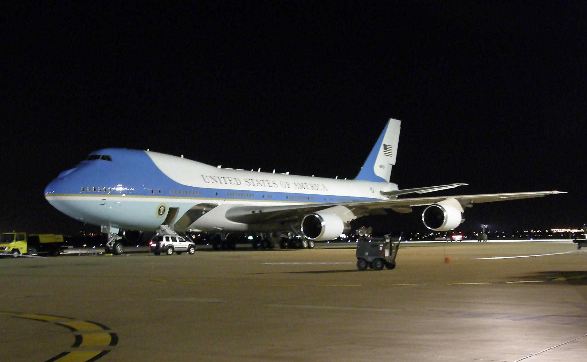 Air Force One at the night, on Airport Zagreb